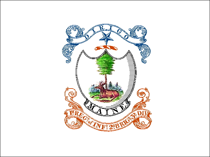 Drawing of Maine militia flag first made in 1822 whose basic design was used until 1861.